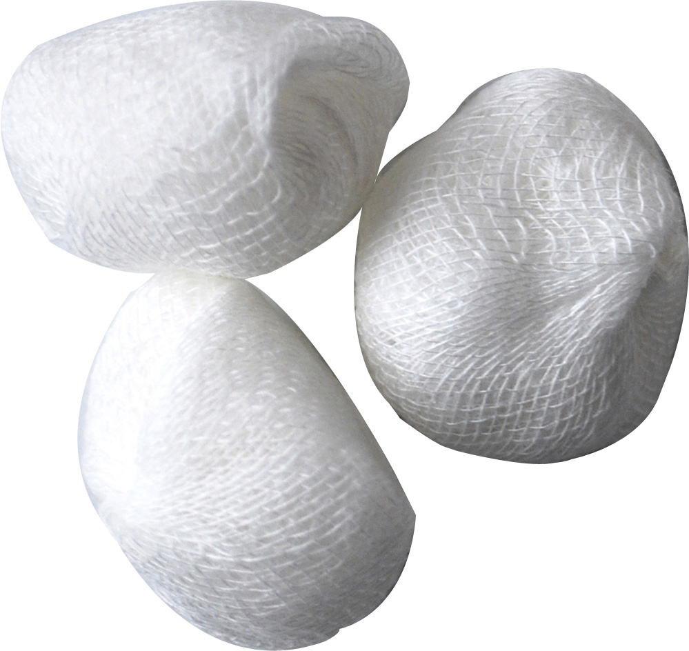 gauze balls for dressing